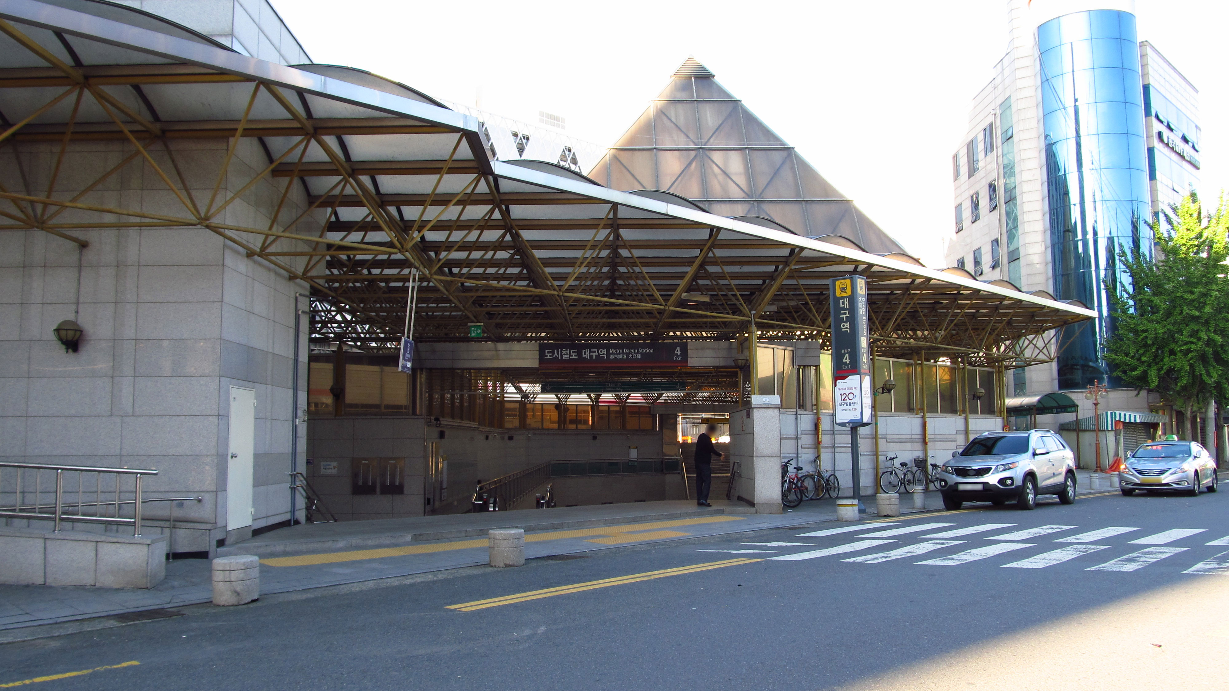 The entrance no.4 of Daegu Station on the Daegu Metro Line 1